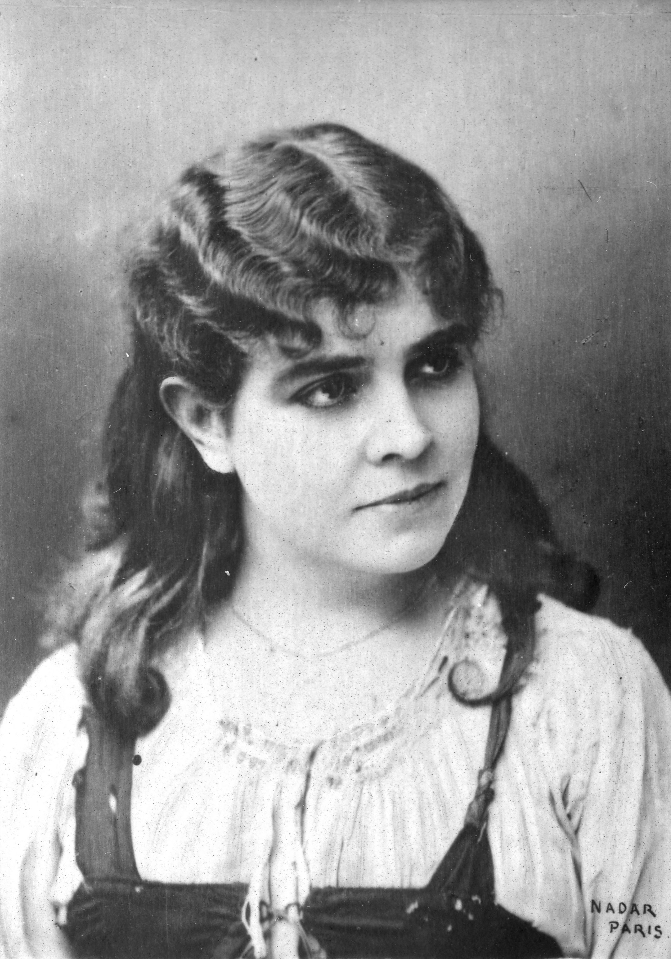 Célestine Marié, known as Galli-Marié (1840-1905), French opera singer